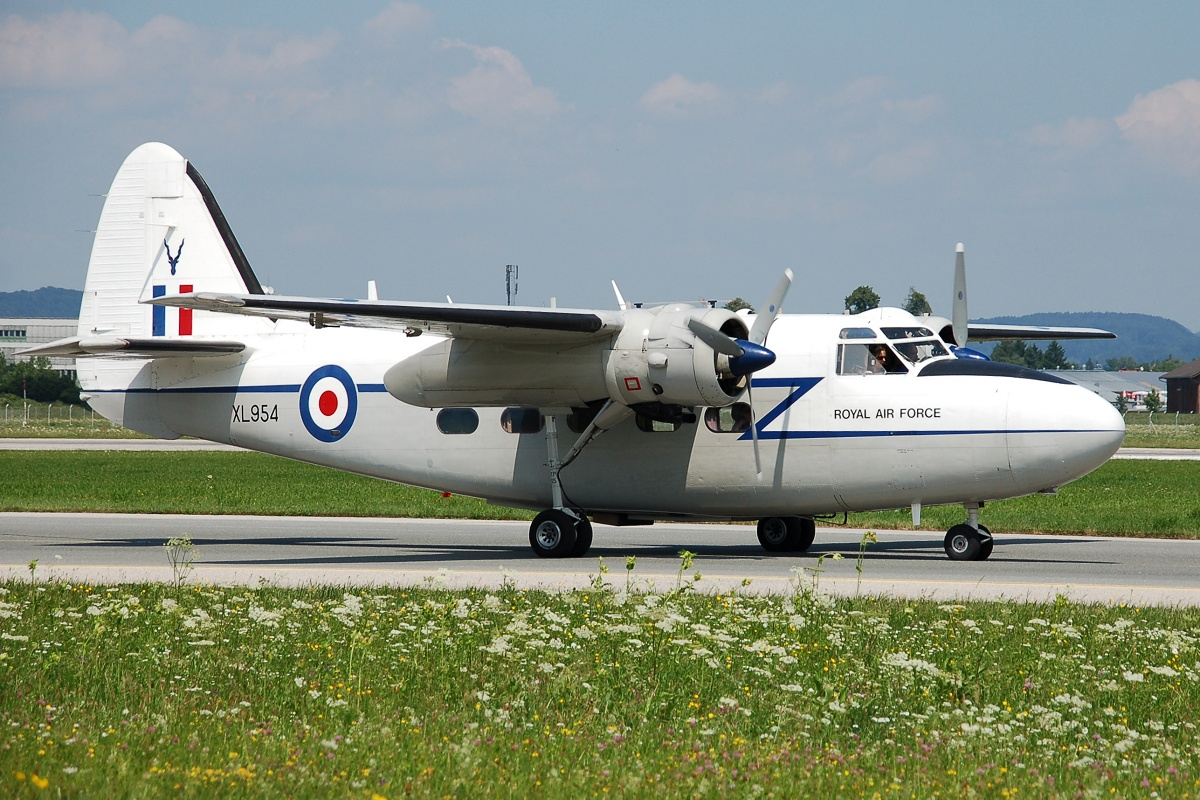 Percival P-66 Pembroke C1 taxing to runway 34 at LOWS (Salzburg)